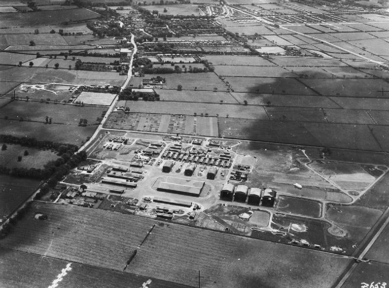 Aerial Views in the United Kingdom, 1941-1942. No. 17 Balloon Centre, Sutton-on-Hull, Hull, Yorkshire, from the north-west.